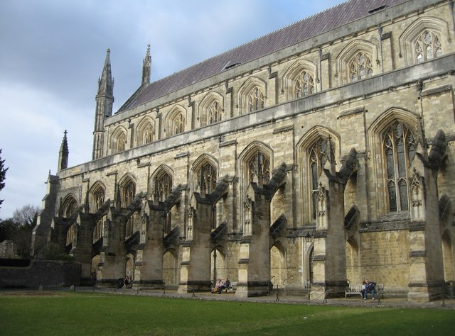 Fine example of buttresses - Winchester As seen from Cloister Garth. The buttresses were infact only added in 1909! Today to the casual observer (like myself) they look as if they have always been there.